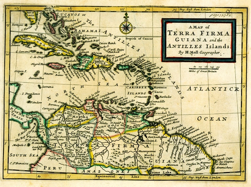 A map of Terra Firma Guiana and the Antilles Islands (Mapa de la Tierra Firme, Guayana y las Islas Antillas) Mapa de 1732